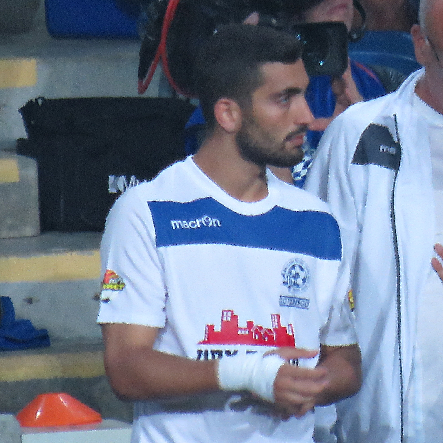 Maccabi Petah Tikva F.C. vs. Maccabi Haifa F.C., 31 October, 2015